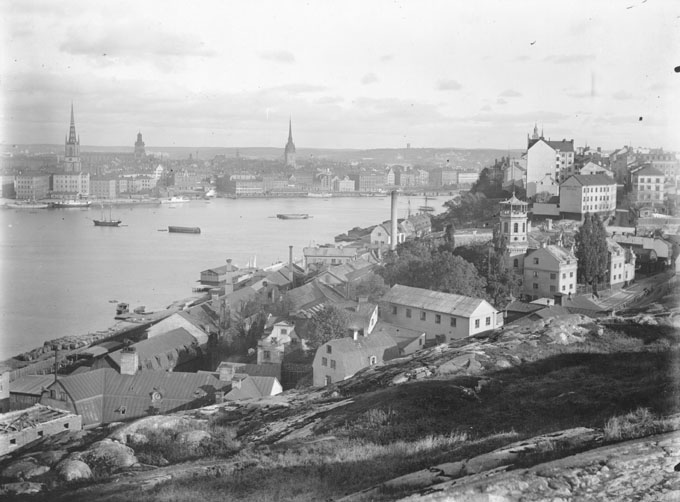 The Ludvigsberg area in Stockholm, Sweden